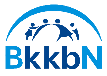 Logo of National Population and Family Planning Agency (Indonesia)